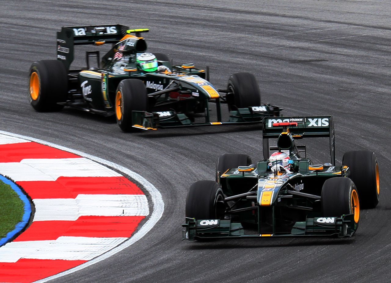 Formula One 2010 Rd.3 Malaysian GP: Lotus duo (Jarno Trulli and Heikki Kovalainen) in Saturday 3rd Free Practice session.